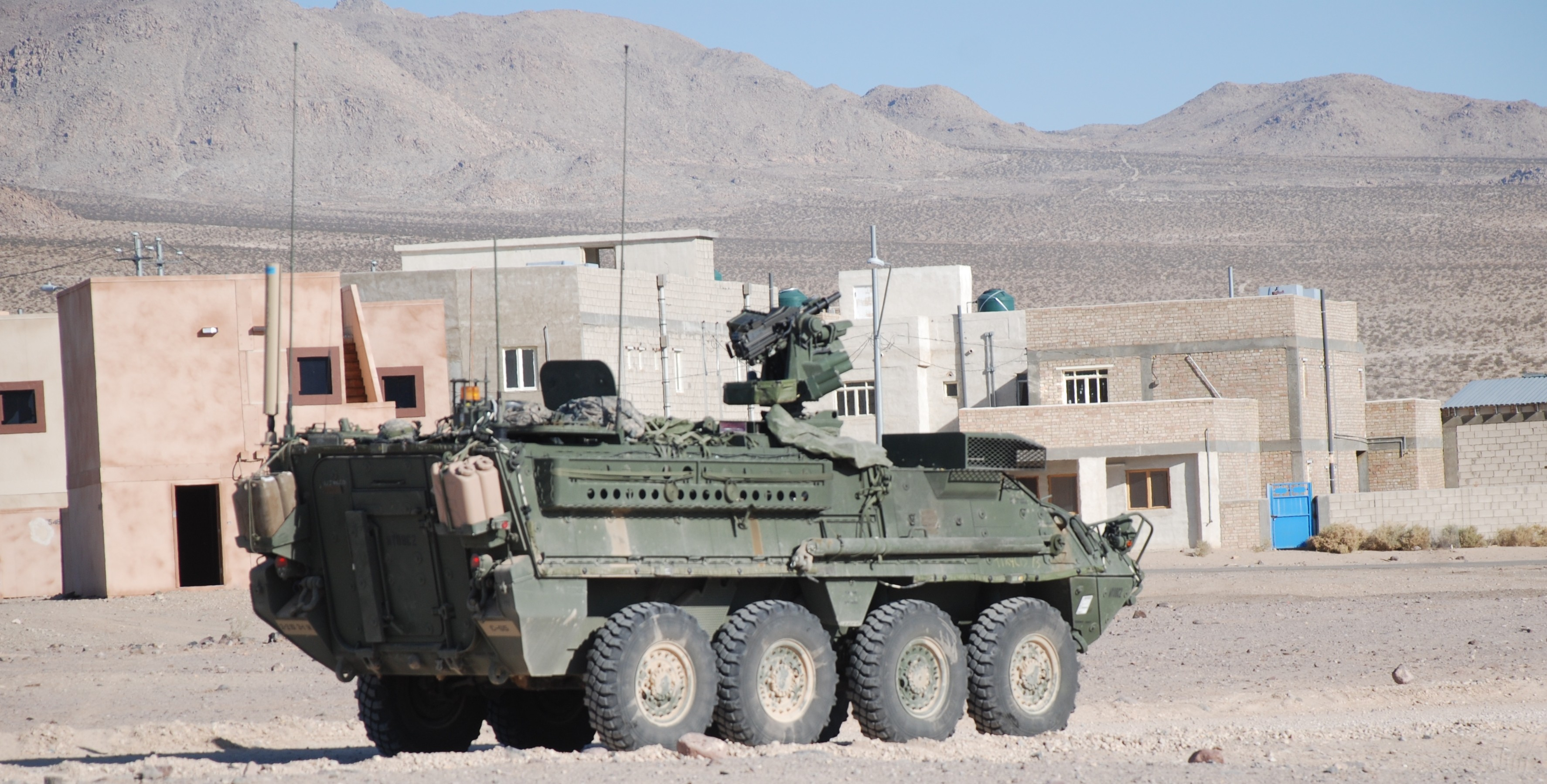 Stryker Armoured fighting vehicle with Mk 19 grenade launcher, at Medina Wasl in Fort Irwin National Training Center in California